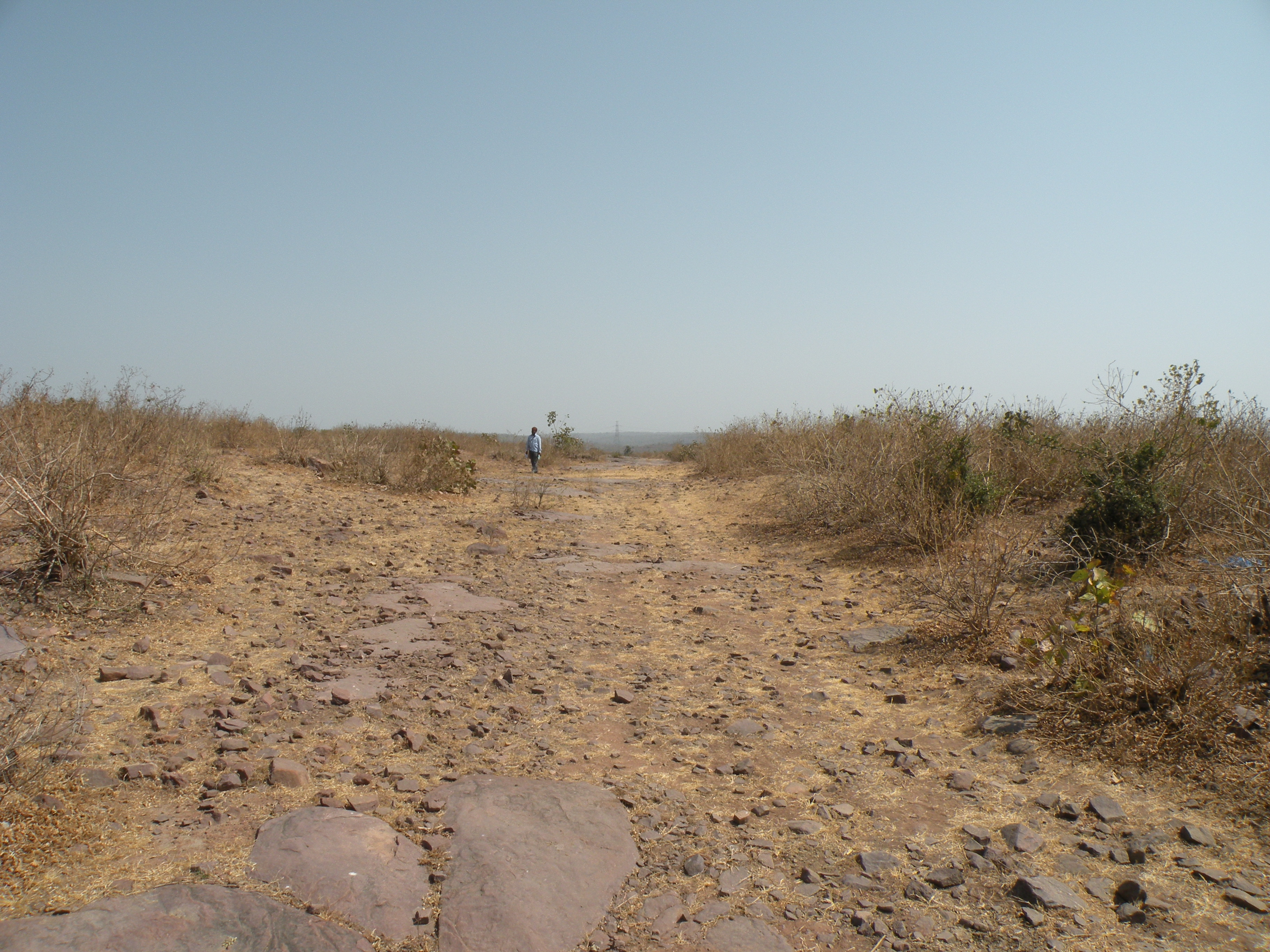 Bhojpur, Madhya Pradesh, India. Part of the palace complex of Bhoja, showing system of avenues laid out in a grid.